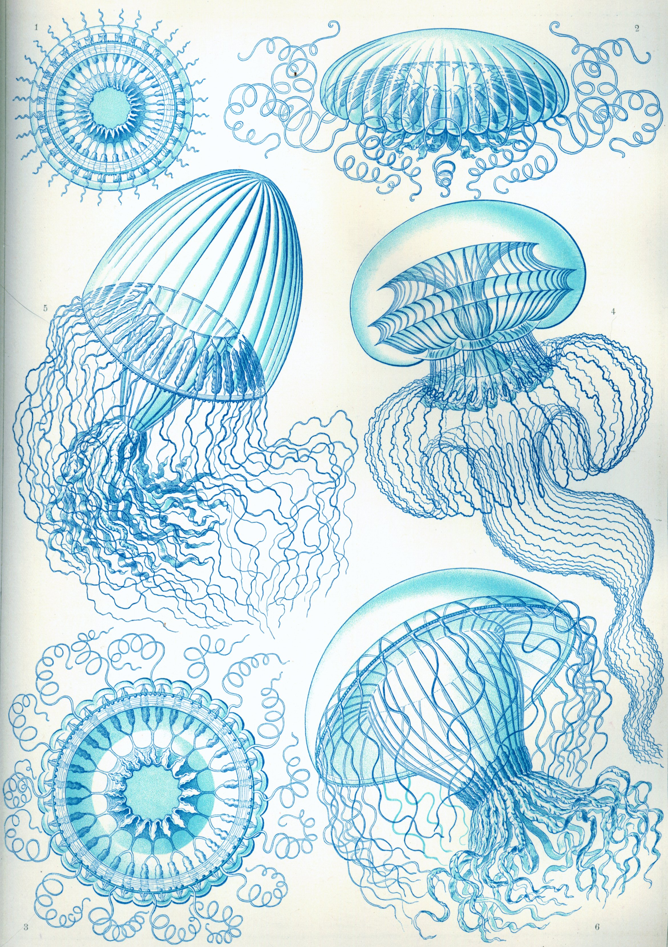 (top left): Aequorea discus (Haeckel) = Aequorea pensilis (Eschscholtz, 1829)?, bottom view (top right): Zygocanna diploconus (Haeckel) = Zygocanna diploconus (Haeckel, 1879), side view (bottom left): Zygocanna diploconus (Haeckel), bottom view (center right): Polycanna germanica (Haeckel) = Aequorea forskalea (Forskål, 1775), side view (center left): Zygocannula diploconus (Haeckel) = Zygocanna diploconus, side view (bottom right): Orchistoma elegans (Haeckel) = Orchistoma sp.?, side view